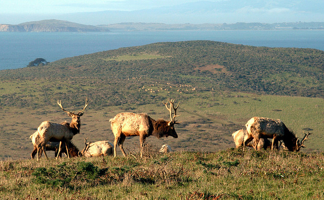 A herd of tupe elk